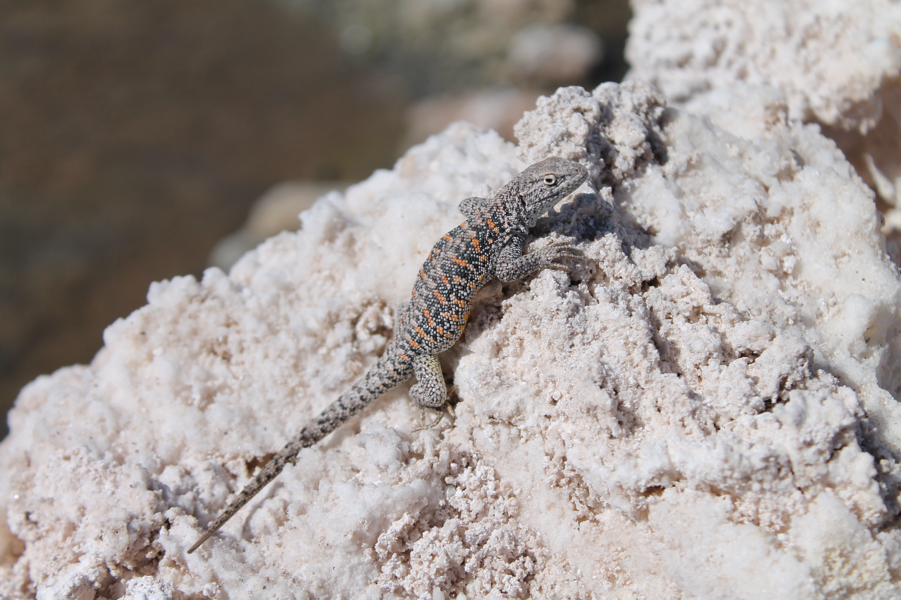 Specimen of a Fabian lizard (liolaemus fabian) on the shores of Laguna Chaxa, Salar de Atacama, Chile.